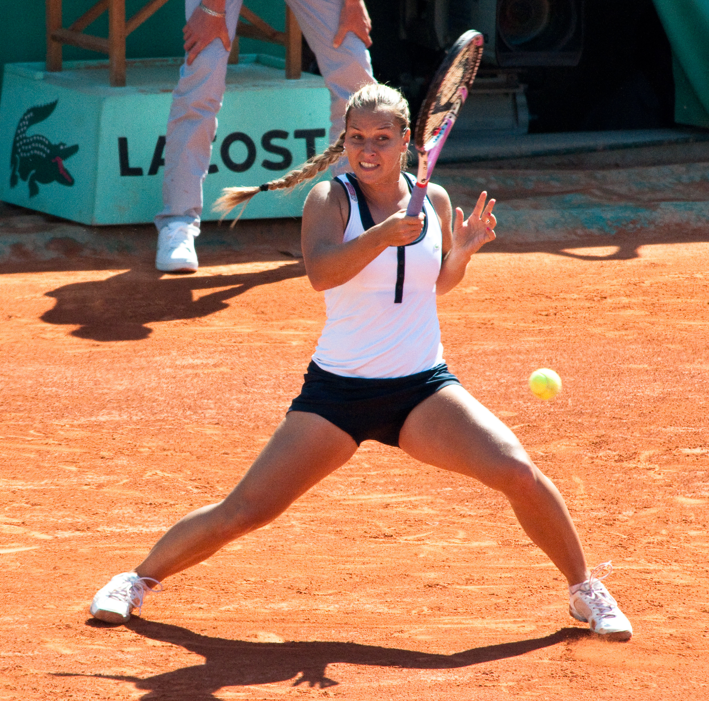 Dominika Cibulková at 2009 Roland Garros, Paris, France